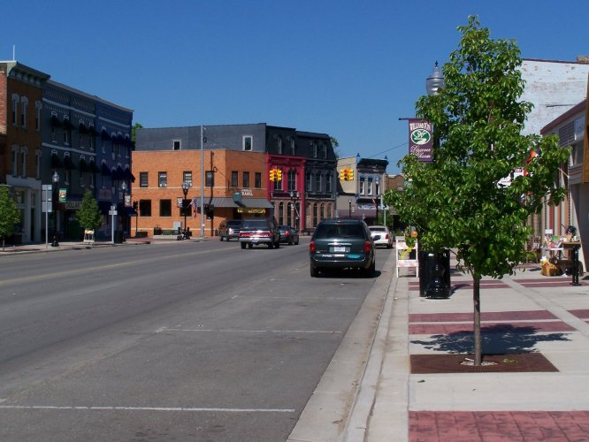 Photograph of downtown Williamston, Michigan taken by myself on June 24, 2006. Category:Images of Michigan